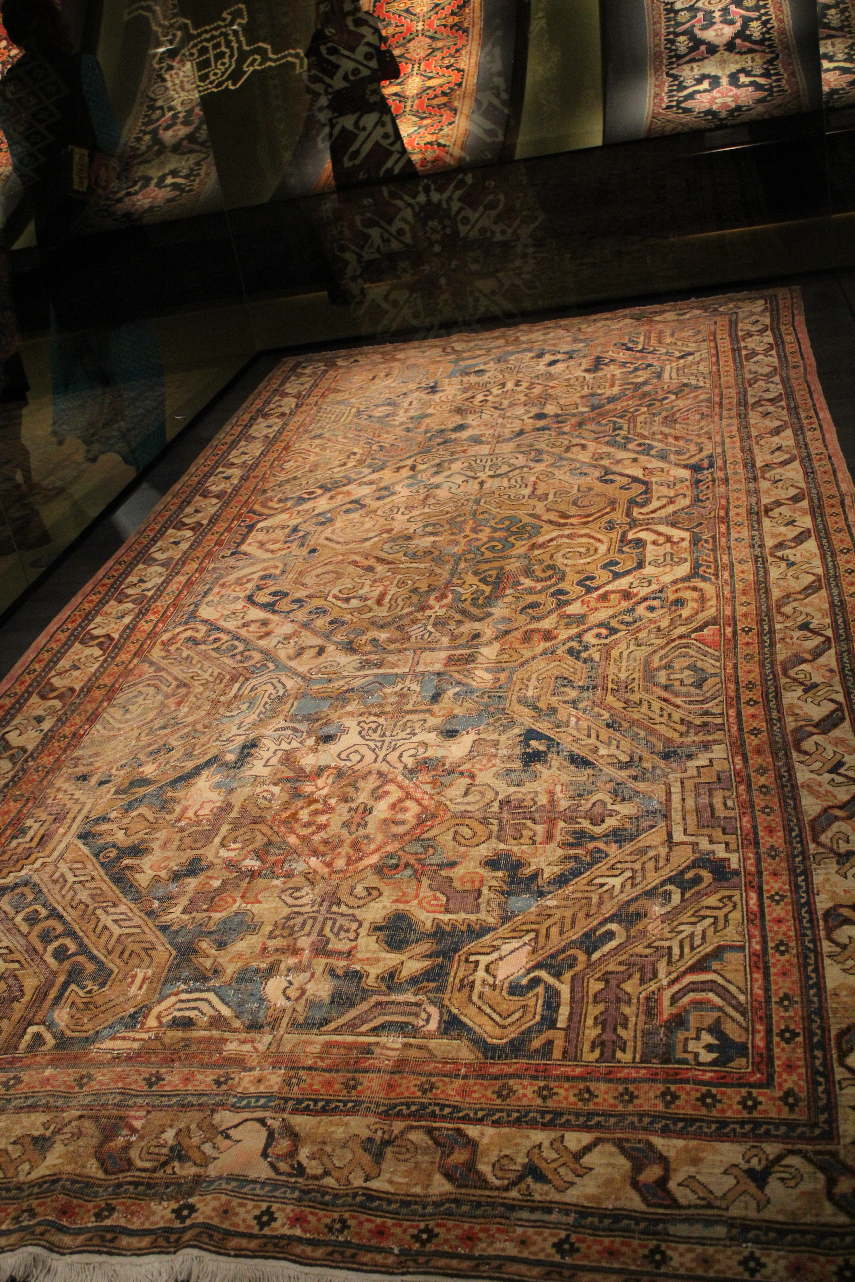 Azerbaijani carpet Ajdahaly (Dragon) from Karabakh. 17th century. Donated in 2013 by Mrs. Beverly Shiltz, widow of the late Mr. Grover Shiltz, rug collector and member of the Chicago Oriental Rug and Textile Society.